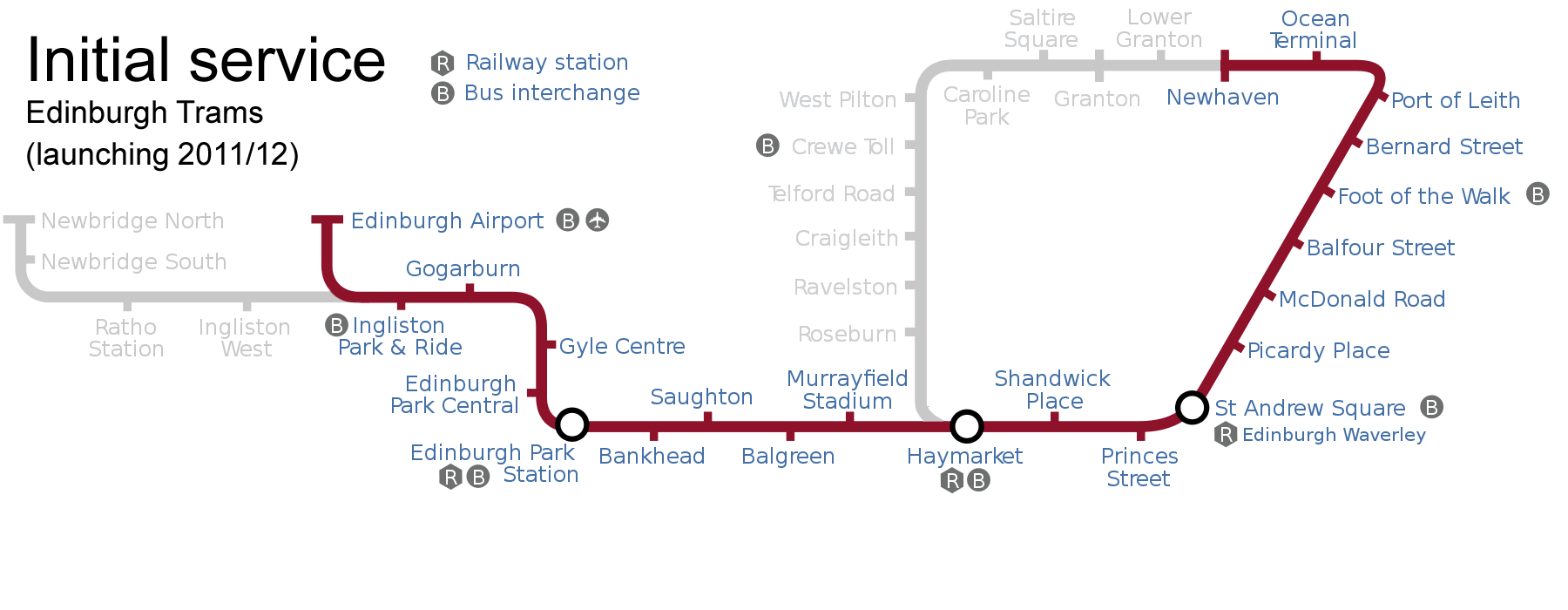 A map showing the full extent of the track and stops that would have been required for the Edinburgh Trams system, if those parts which gained parliamentary approval in 2006 had been completed (proposed Lines 1 & 2). Highlighted is the extent of what was planned to be completed in the first (of four) construction phases (this was designated phase 1a, but included track and stops required for both of the proposed lines, 1 and 2). After various revisions and cancellations, the only part of the track that was eventually built was the section from the airport to York Place (between St Andrew Square and Picardy Place), which runs as a single line (opened in 2014).